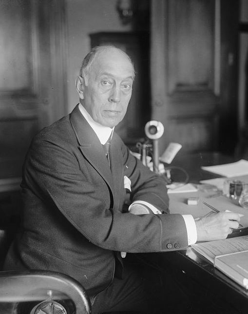 Title: Samuel M. Shortridge, Cal. Abstract/medium: 1 negative : glass ; 5 x 7 in. or smaller